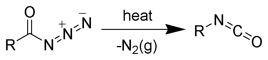 Description: Reaction scheme of the Curtius rearrangement. Author, date of creation: selfmade by ~K, 08 September 2005. Source: - Copyright: Public domain. (PD) Comments: high-resolution b/w PNG; ChemDraw / The GIMP.